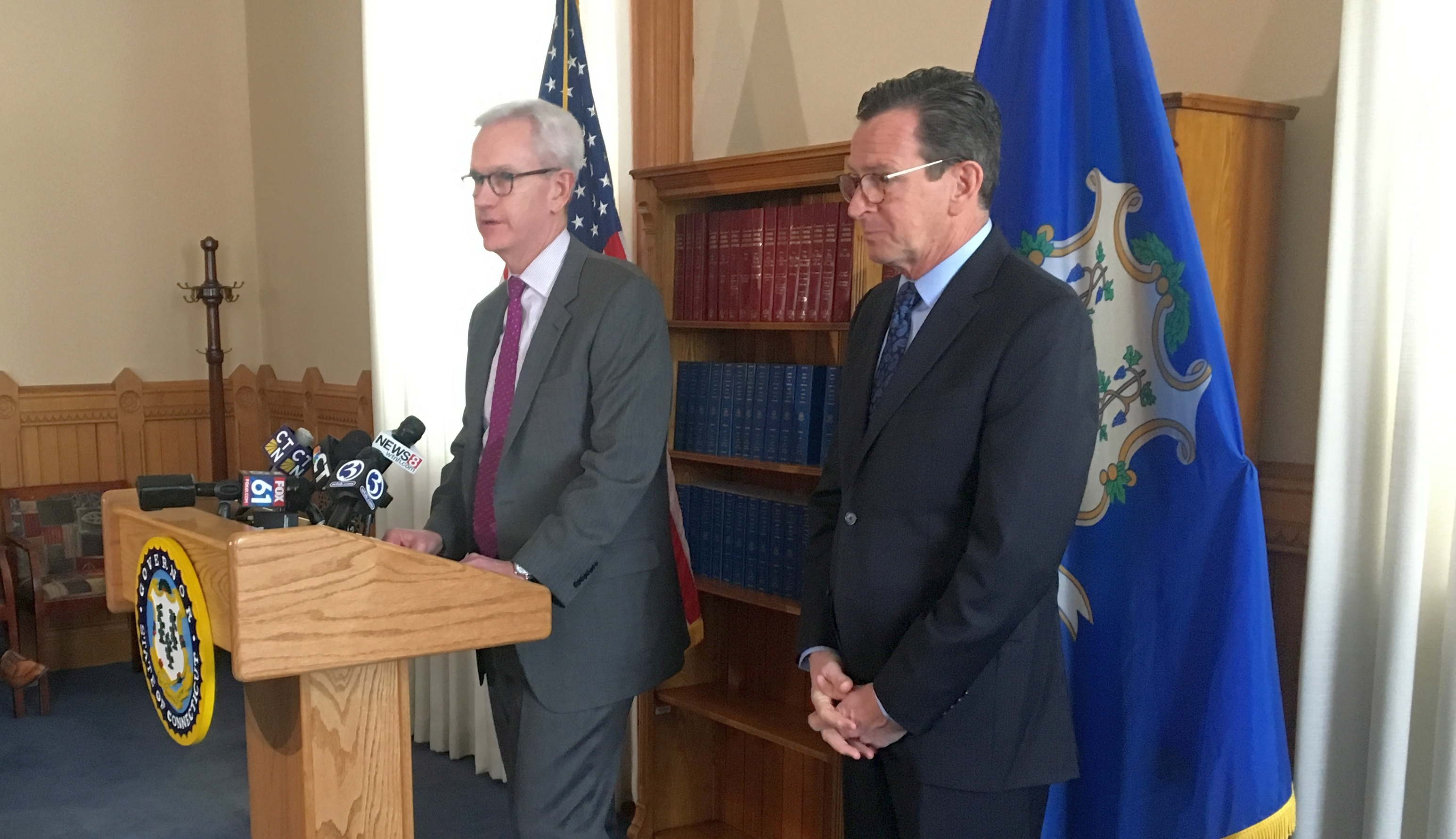 Monday, January 8, 2018 -- Governor Dannel P. Malloy today announced that in the coming weeks he intends to nominate Justice Andrew J. McDonald to serve as Chief Justice of the Connecticut Supreme Court.